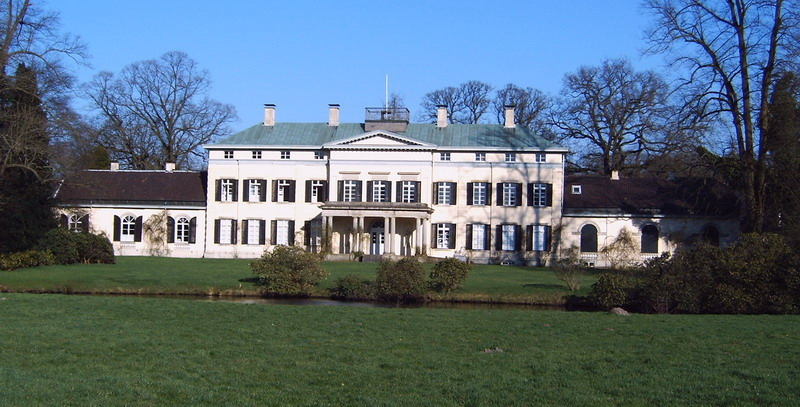 Description: Castle in Rastede, Germany Date: June 2005 Photographer: Marvins21